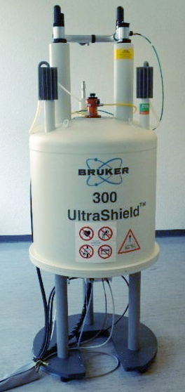 A NMR spectrometer from Bruker